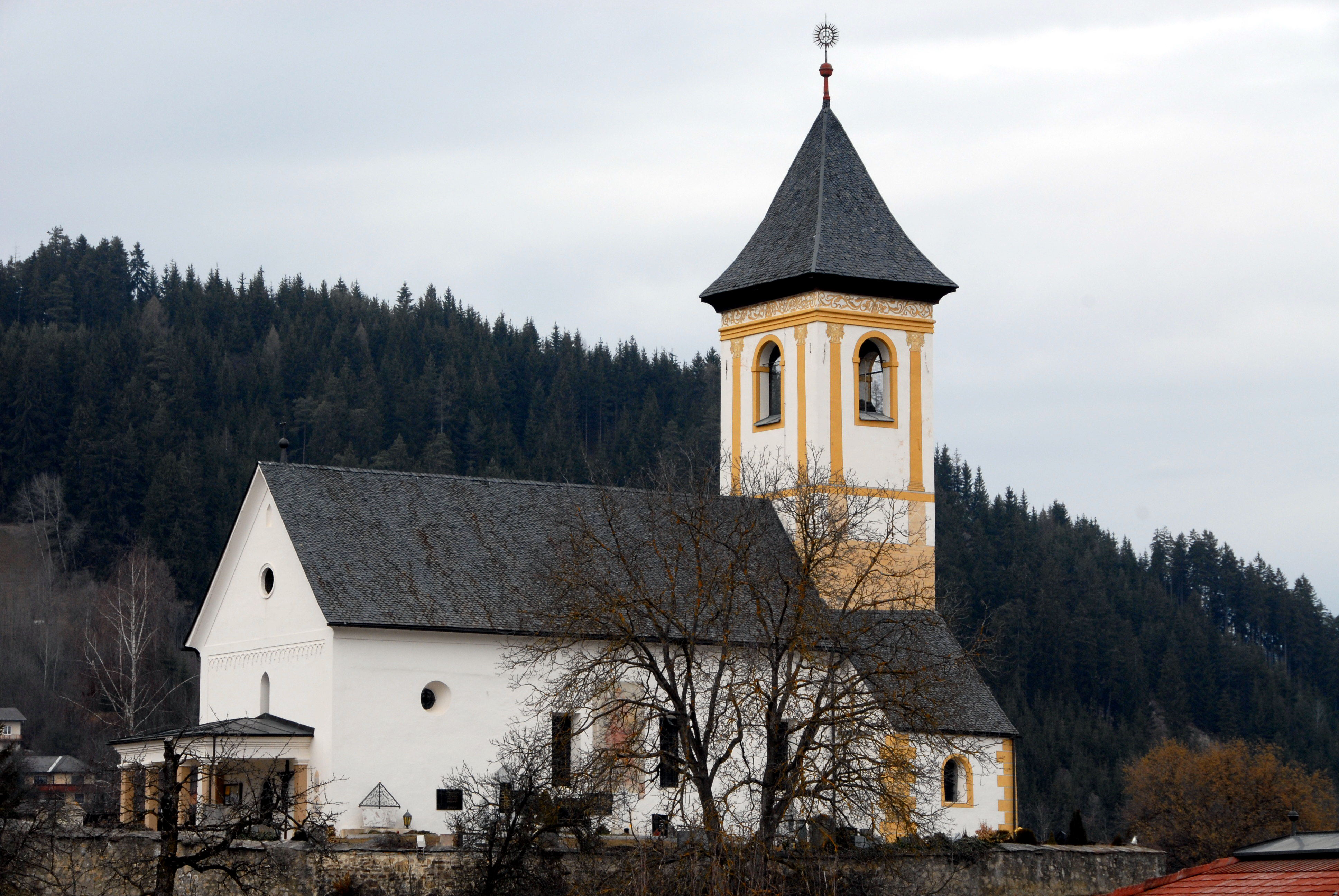 Parish church Saint Peter at Sankt Peter, municipality Sankt Georgen a. L., district Sankt Veit an der Glan, Carinthia, Austria, EU